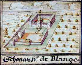 View of Schloss Schönau near Aachen, Germany, around 1720. Detail from the Codex Welser. The castle was renewed in the 1730s; of the depected buildings almost nothing remains.